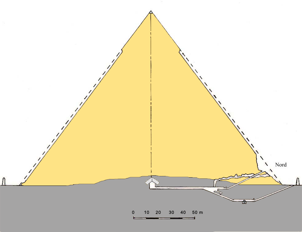 Inner structure of the Pyramid of Khafre